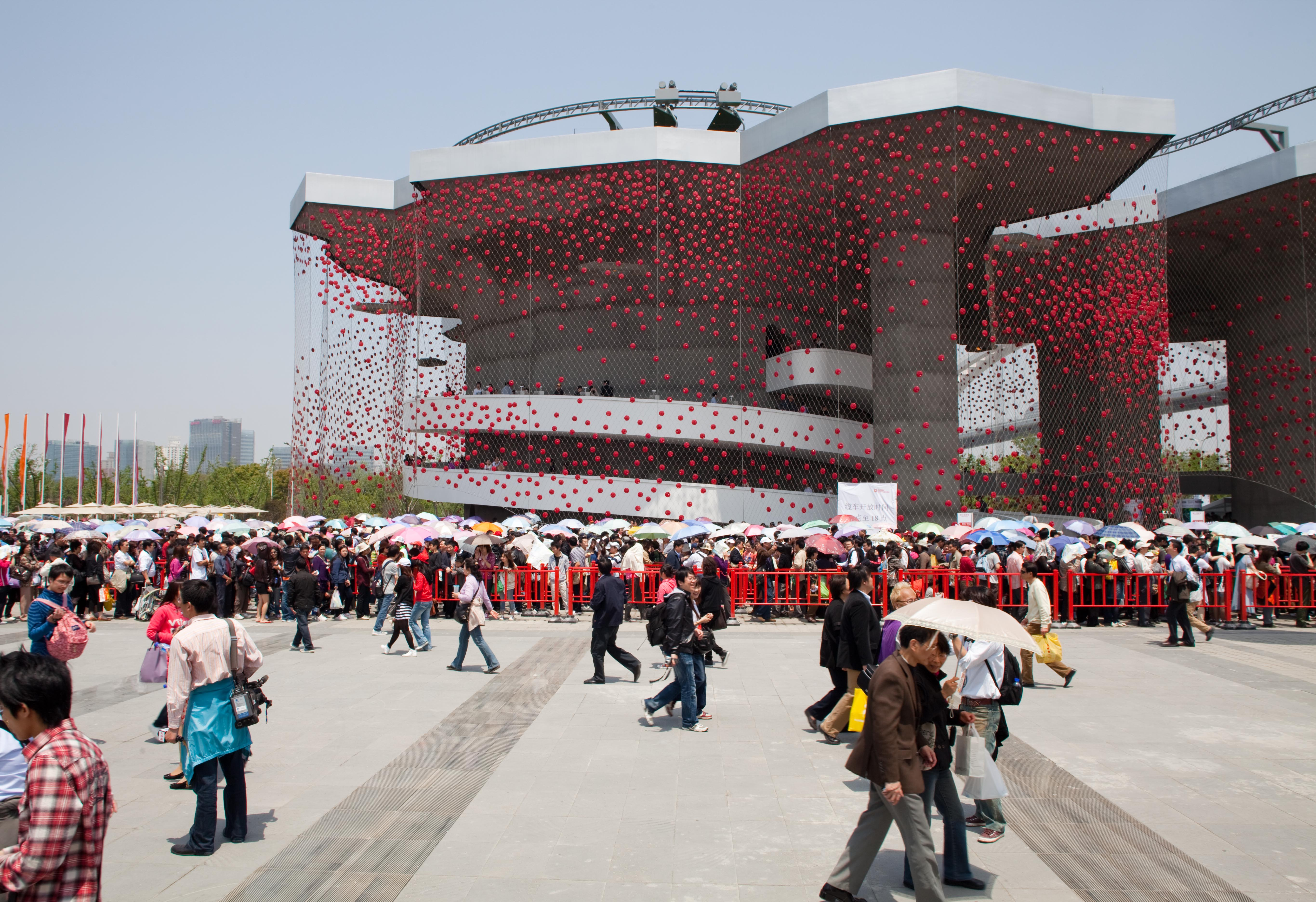 Swiss Pavilion at the Expo 2010 Shanghai at the opening day